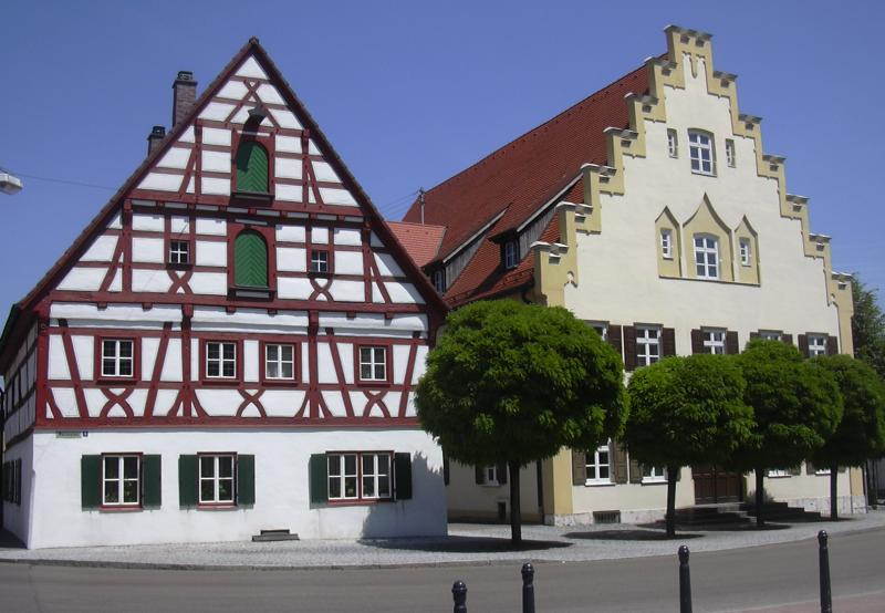 Centre of Wittislingen, Germany, the building on the right is the town hall